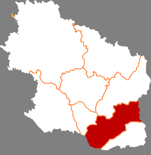 Location of Ning county in Qingyang city, China